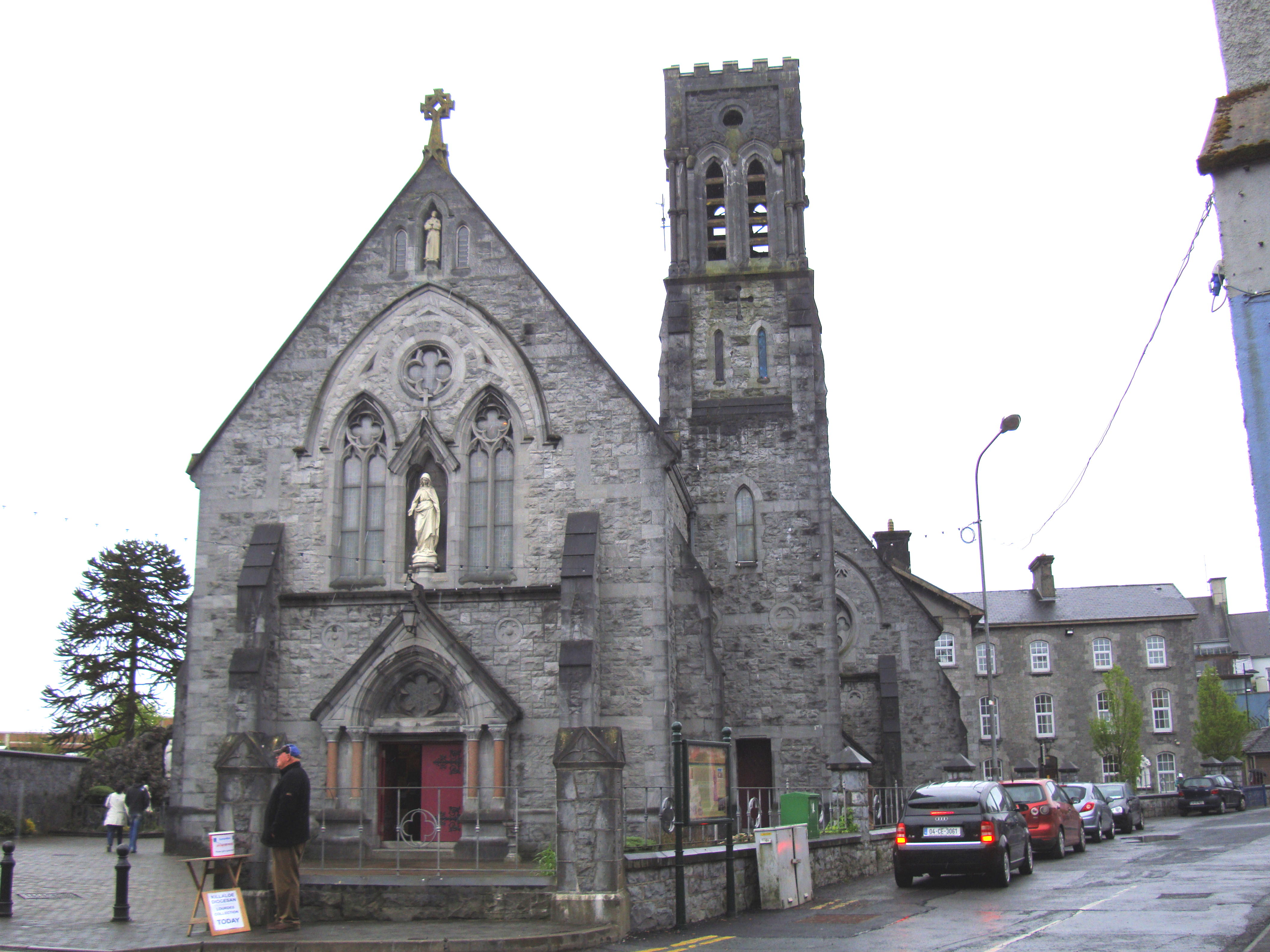 Photograph of Ennis Franciscan Friary, Co. Clare, Ireland